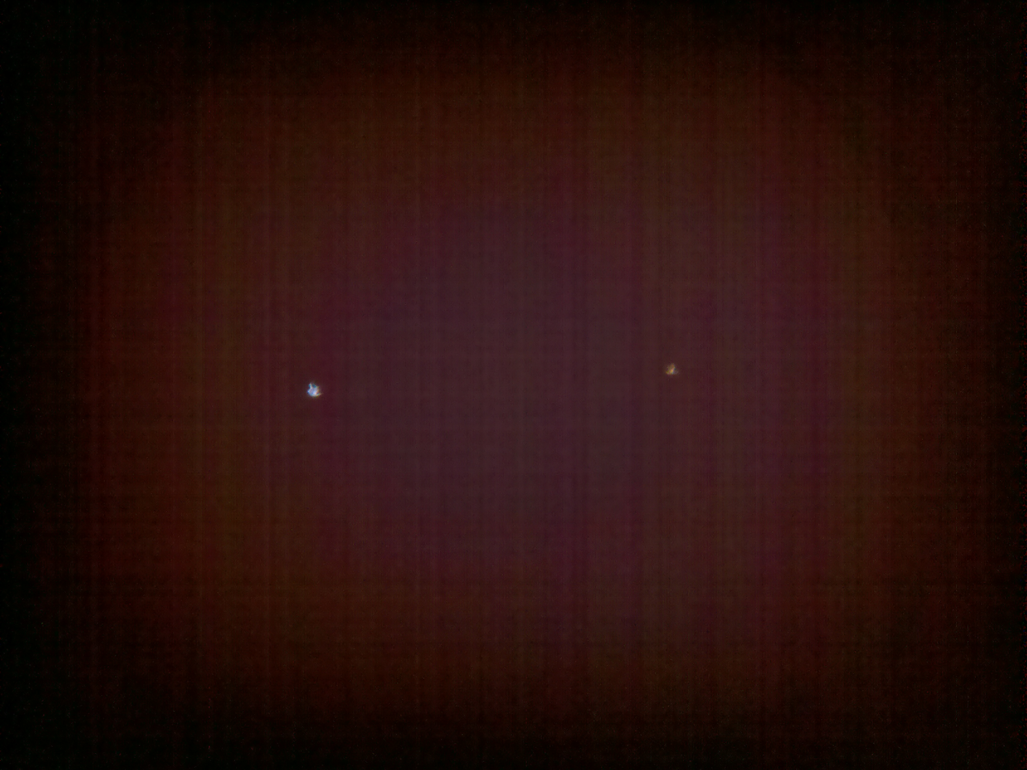 This image shows the 3rd magnitude star Pherkad and the 5th magnitude Pherkad Minor